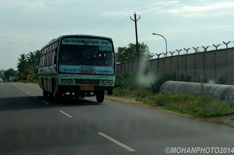 Road Pics